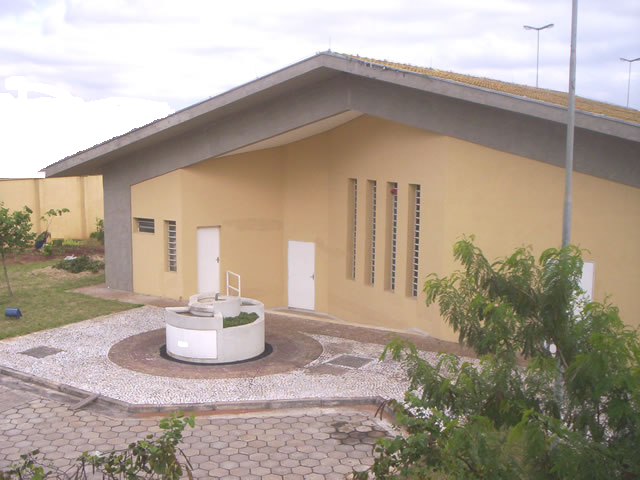 Sao Paulo Tecnological College (East Zone)